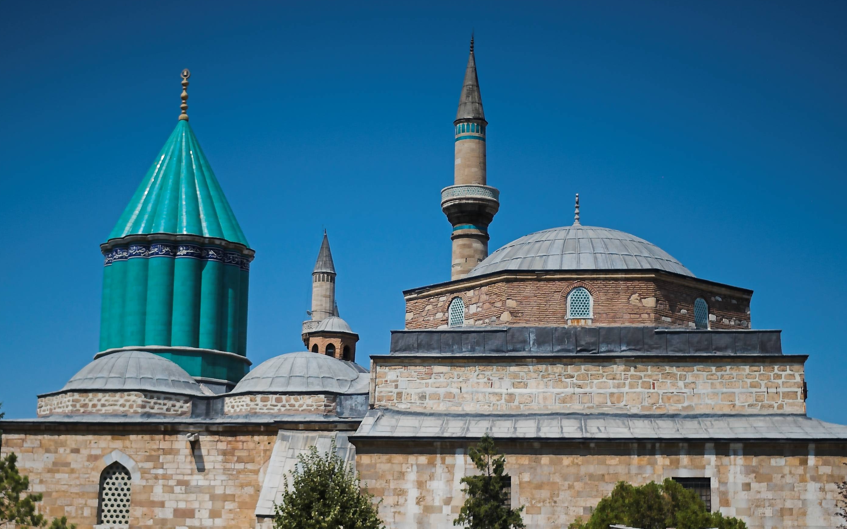 General outside architecture of Mevlana Museum complex, Konya, Turkey.